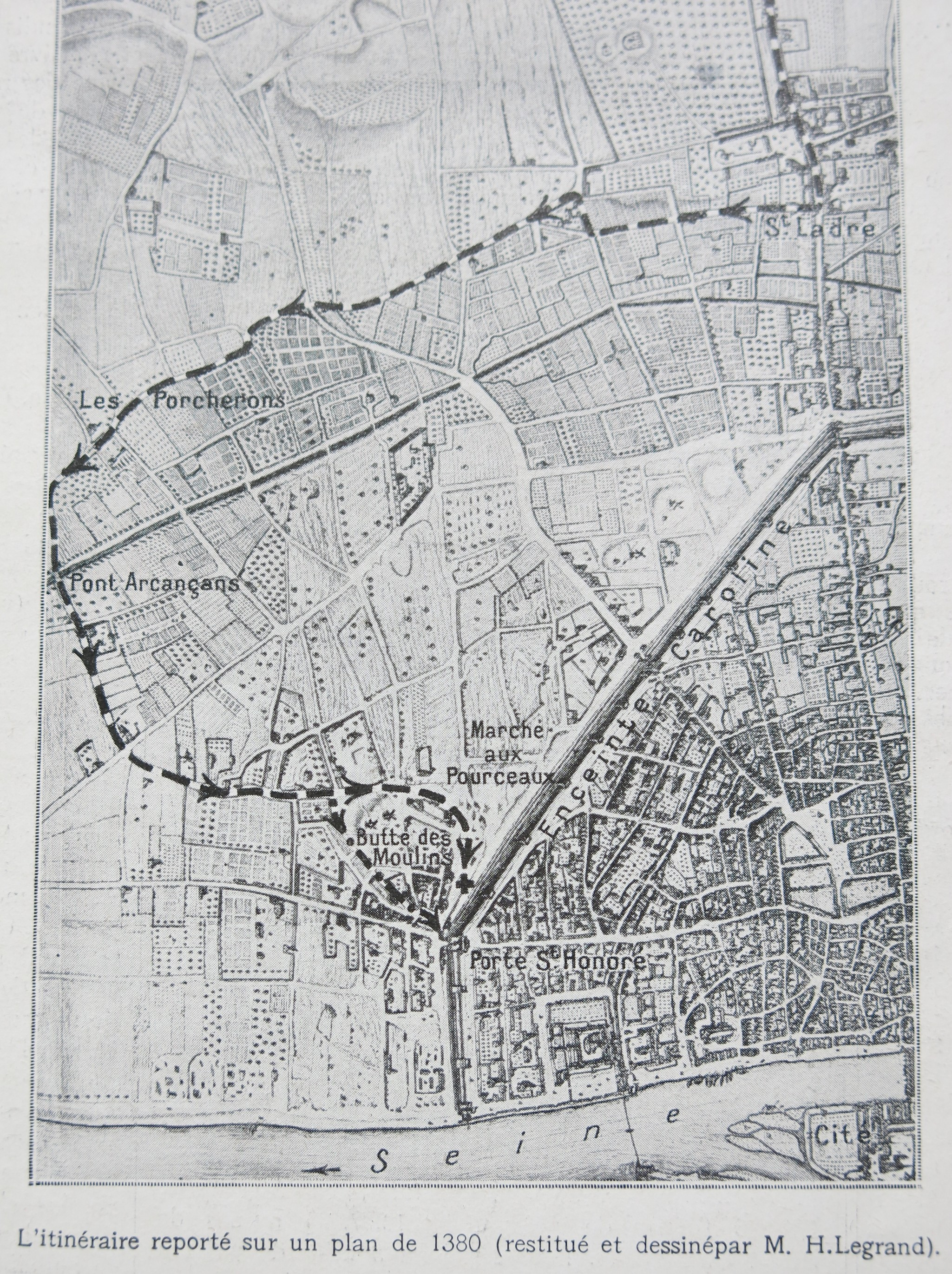 March approach to Paris by Joan of Arc (September 1429).